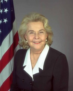 Melissa Foelsch Wells. United States diplomat, former ambassador to Estonia and other nations.